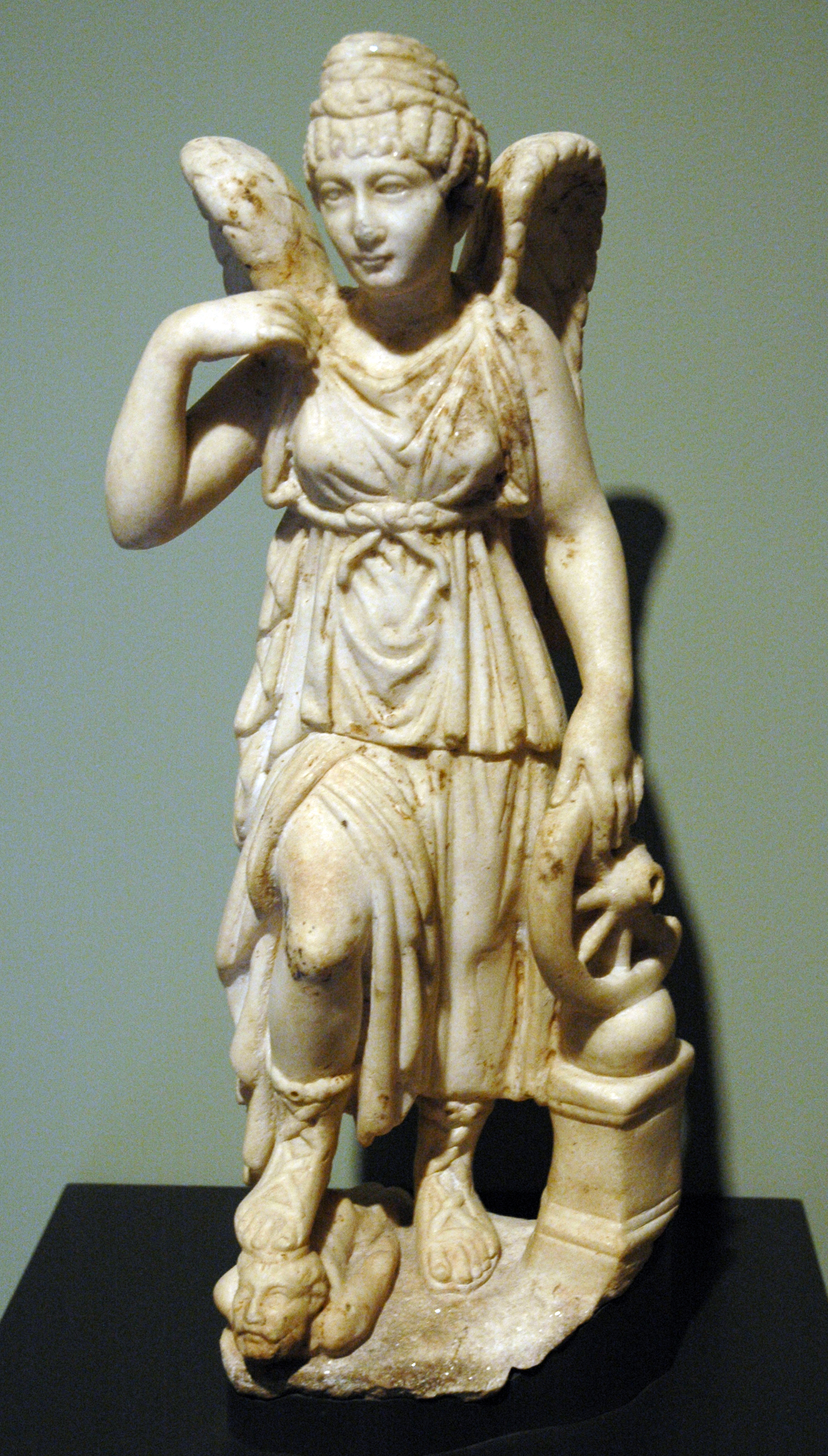 Nemesis holding the wheel of fortune, her right foot resting on a conquered foe. The goddess' hairstyle and facial features resemble those of the emperess Faustina the Elder. Roman marble statuette, ca. 150 AD.